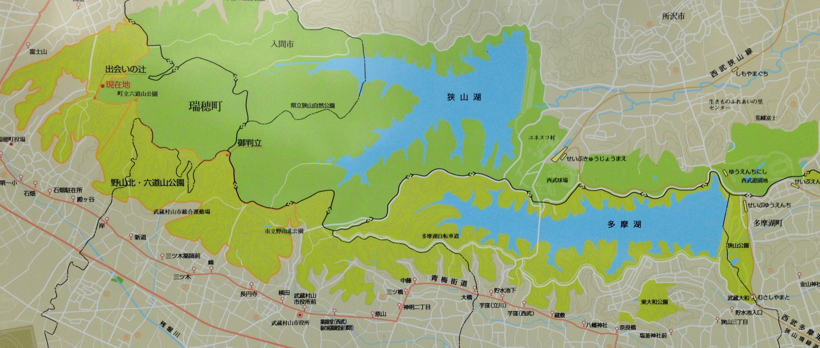 Photo of part of the large maps posted on outdoor signs around Tama ko and Sayama ko public hiking trails in Tokyo and Saitama, Japan.